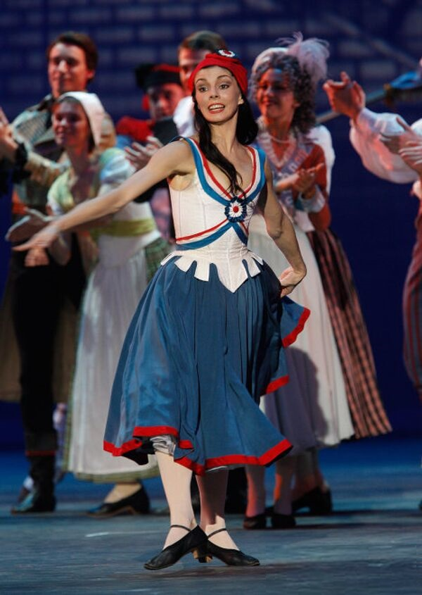 Natalia Osipova in an extract from Flames of Paris during the re-opening gala of the Bolshoi Theatre, 28 October 2011